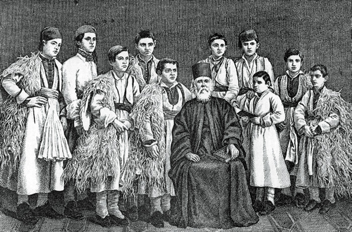 Averchie of Avdela and his students